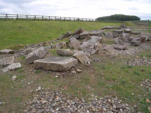 Source description says: "Remains of Roman Bridge, Piercebridge. Remains of the bridge constructed by the Romans, which carried Dere Street across the River Tees. The river has shifted northwards from the site in historic times. View across Tees from Cliffe, Richmondshire.